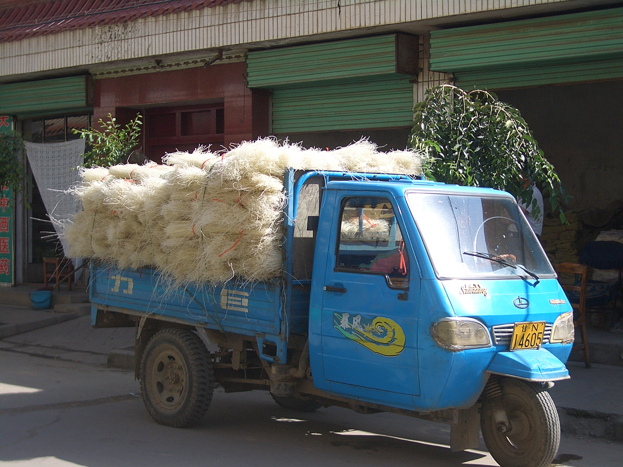 A truck of noodles in Linxia City